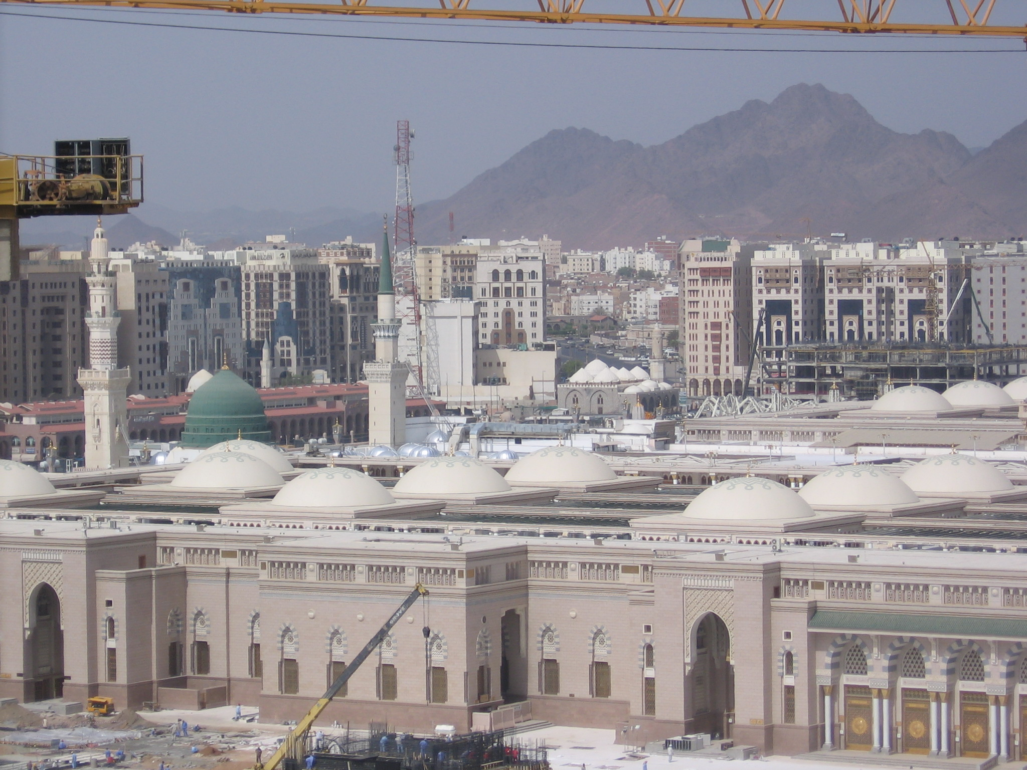 Al-Masjid al-Nabawi in Medina Saudi Arabia